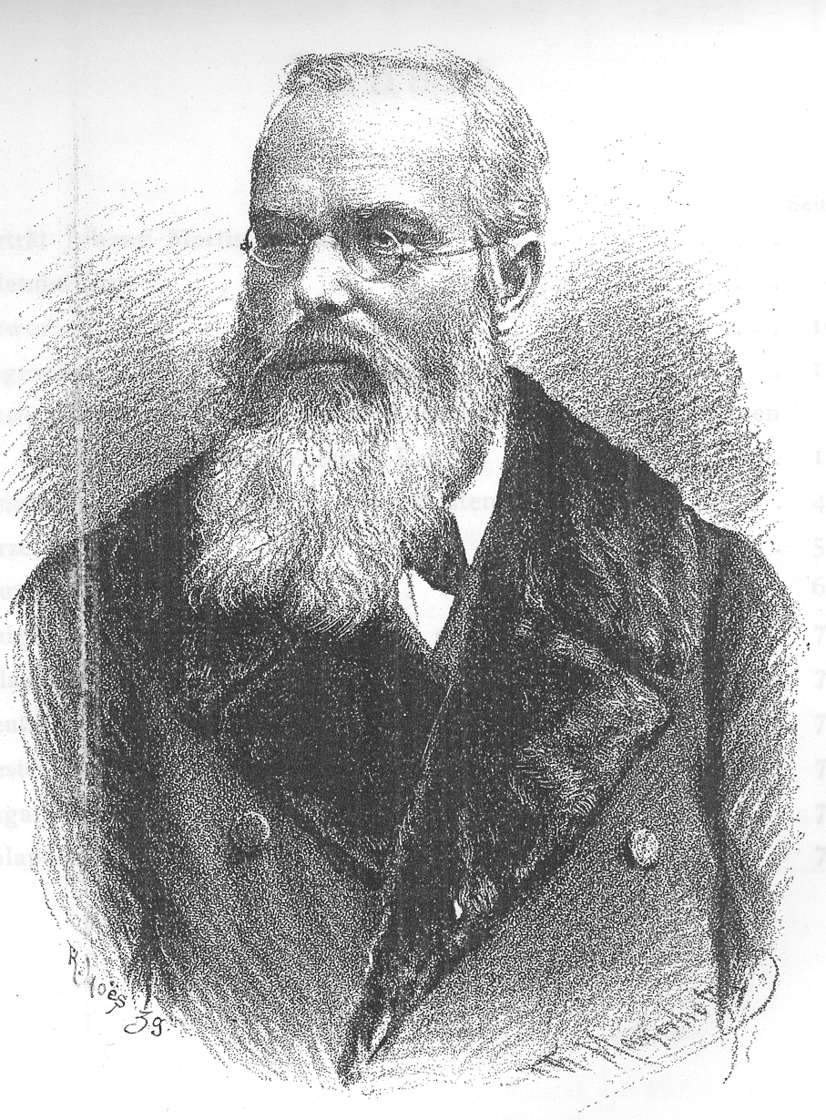 a drawing of Johann Martin Schleyer, the creator of Volapük